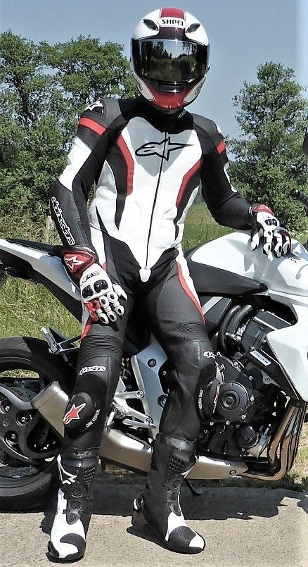 dgzfzuuf